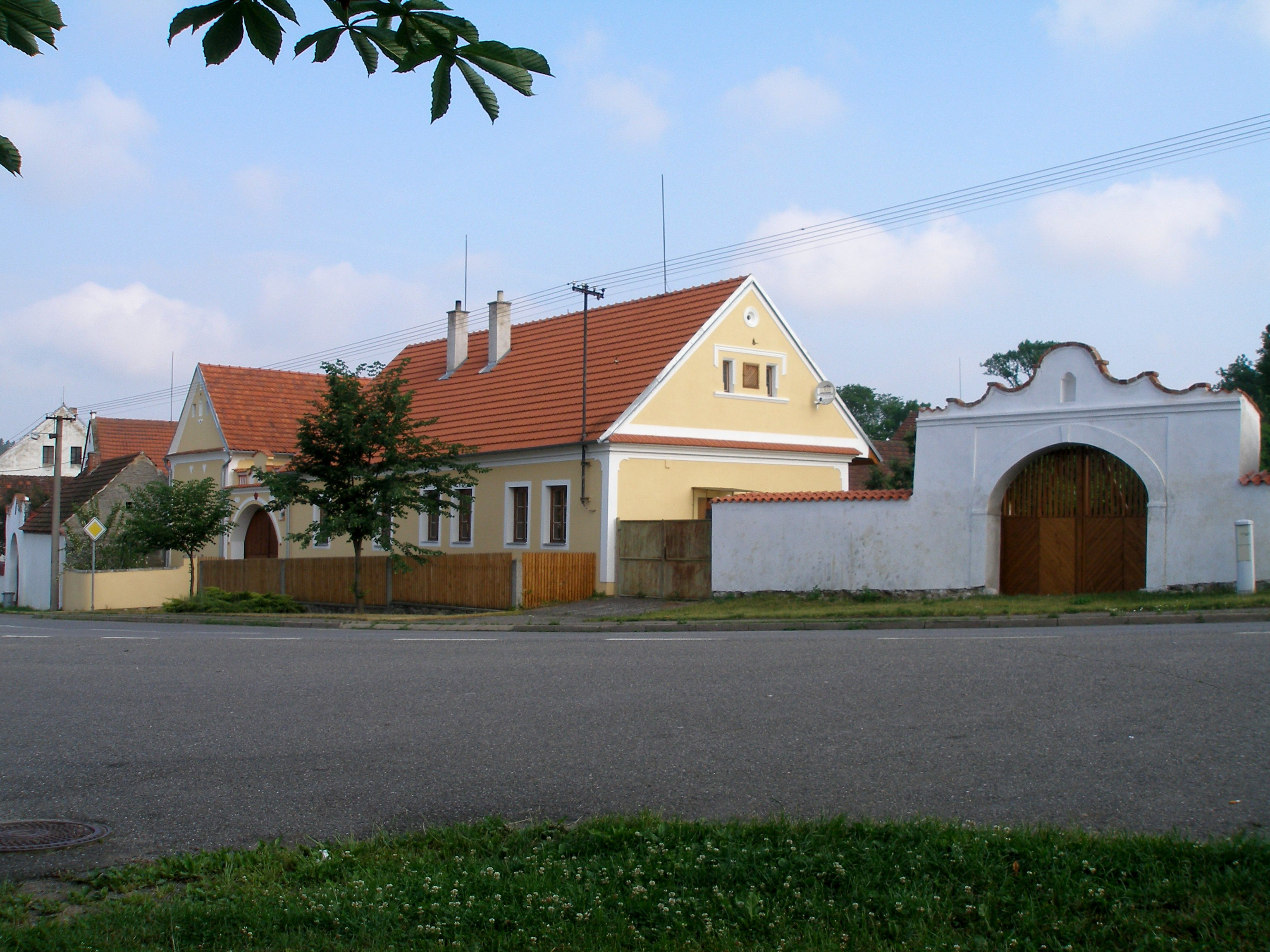 Velká (part of the city Milevsko) - the part of the Northern side of the square